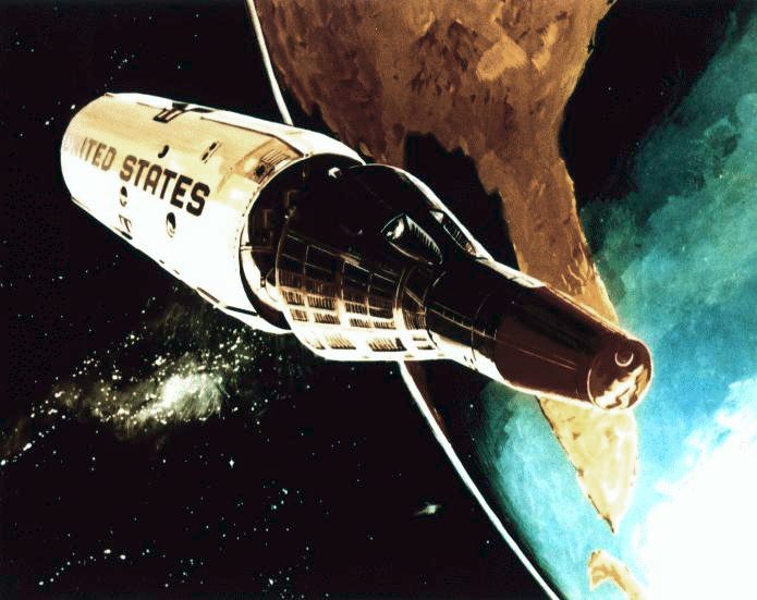 Illustration of a Gemini B reentry vehicle separating from the Manned Orbiting Laboratory (MOL).